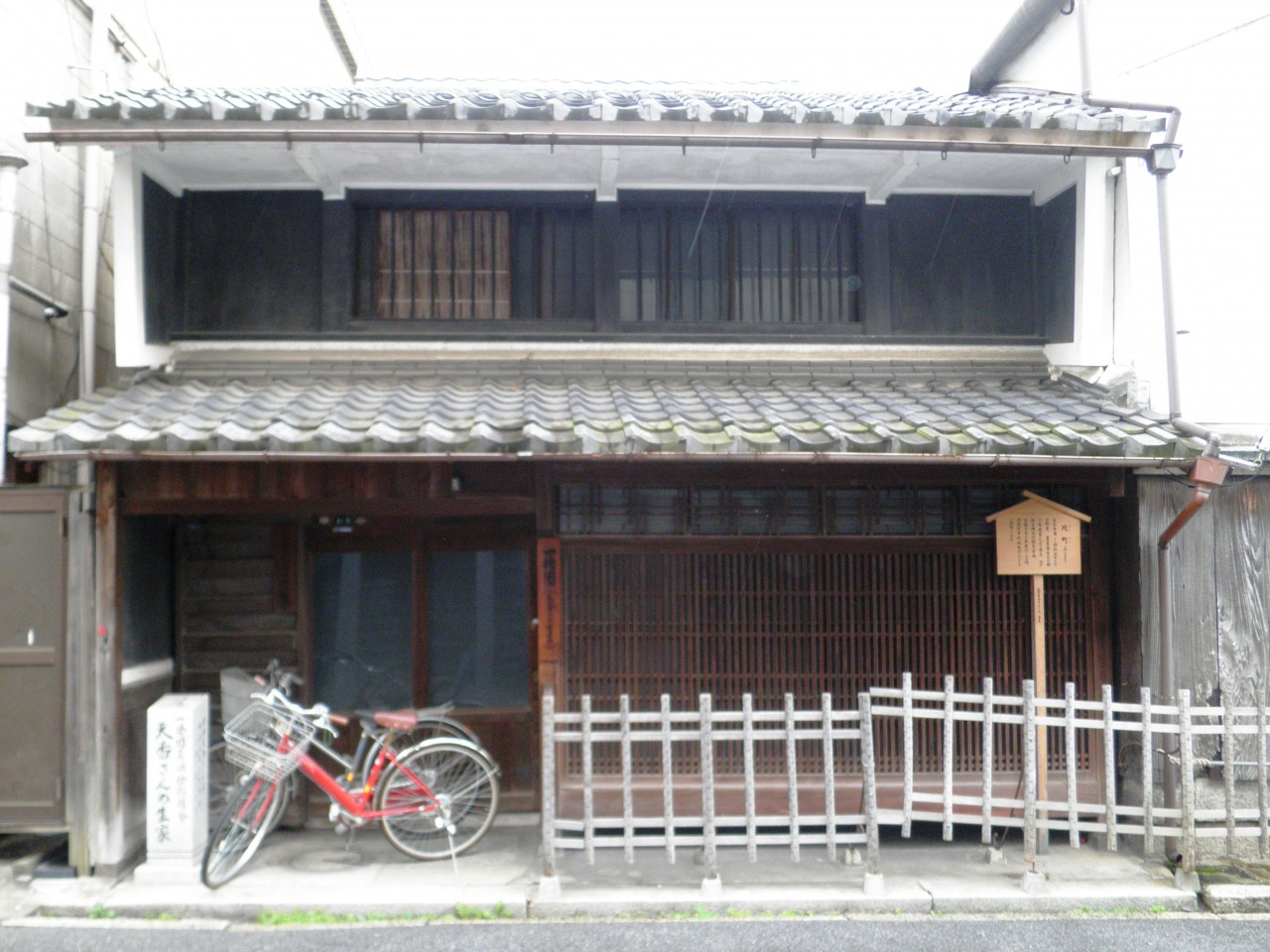 Birthplace of Nishida Tenkō in Nagahama, Shiga.